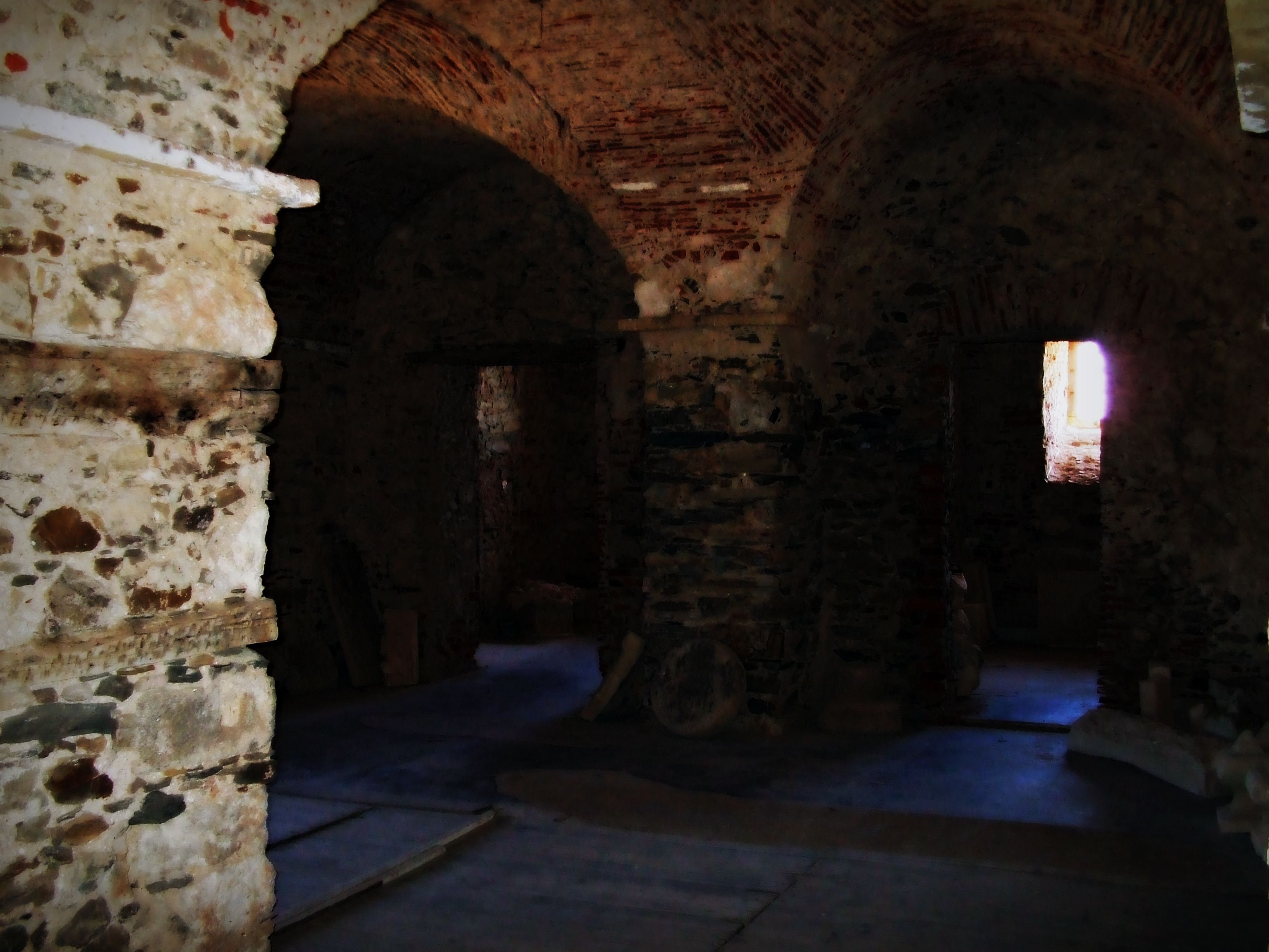 This file was uploaded for Wiki Loves Monuments in Portugal with the unique identifier 73848.